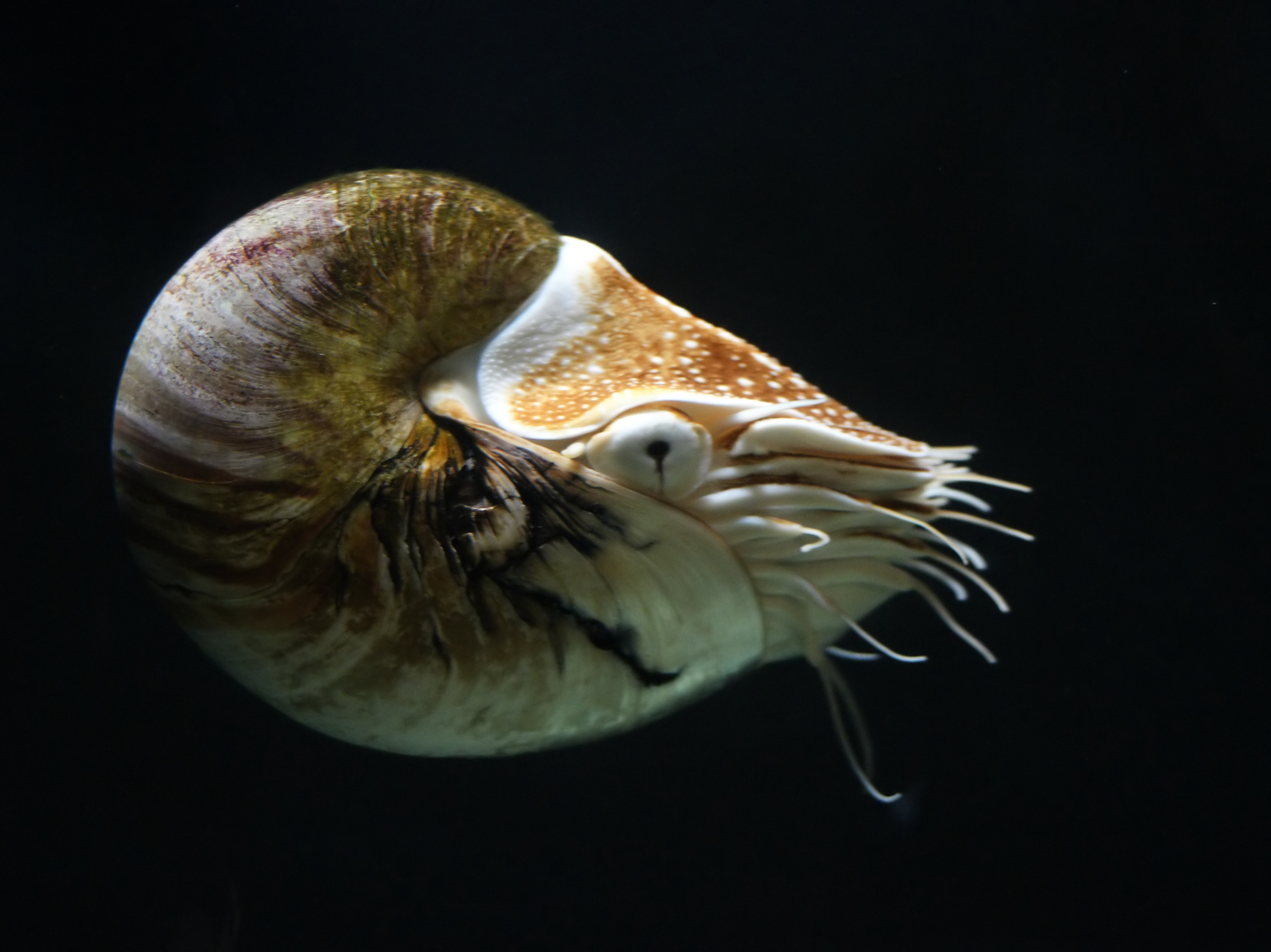 Chambered Nautilus, at Pairi Daiza, Brugelette, Belgium